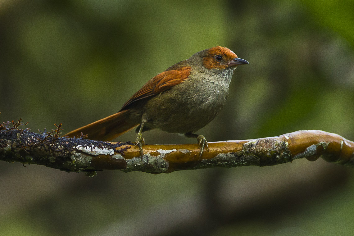 Red-faced Spinetail - Colombia_S4E4386